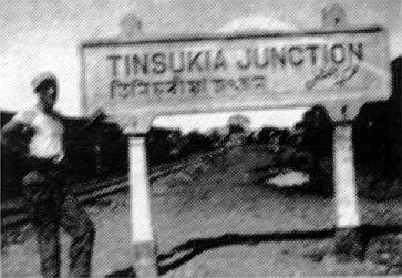 A historical photograph of Tinsukia rail station.অসমীয়া: ১৯৪৩ চনৰ তিনিচুকীয়া ষ্টেচনৰ এখন ঐতিহাসিক আলোকচিত্ৰ।